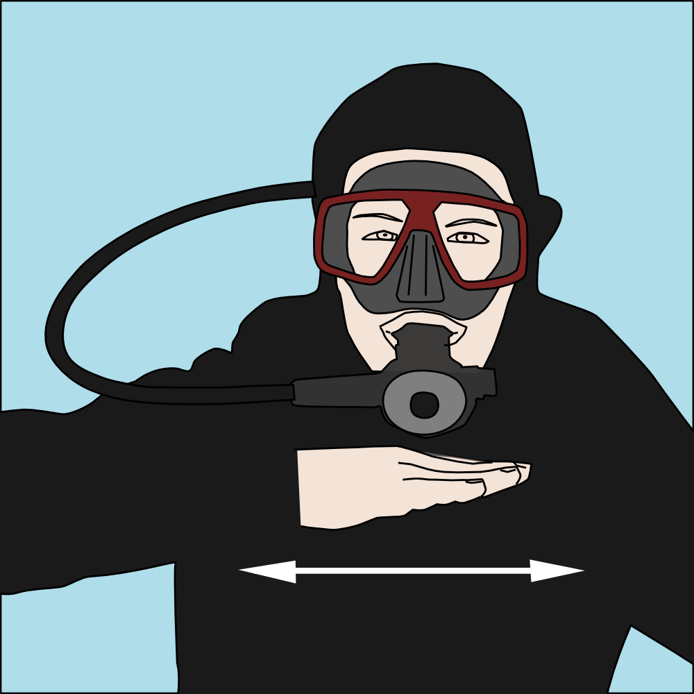 RSTC standard hand signal for scuba diving - Emergency: out of air